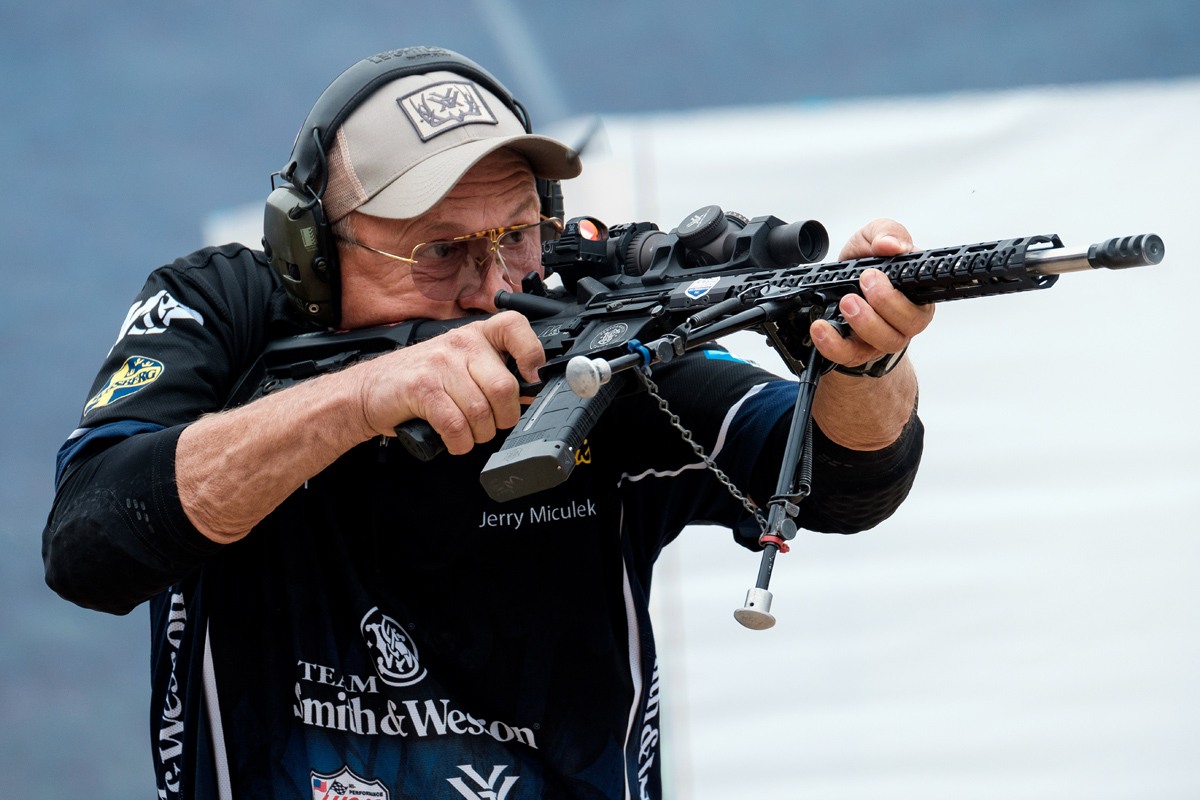 Jerry Miculek at the 2017 IPSC Rifle World Shoot in Russia where he took gold in the Open division Super Senior category.